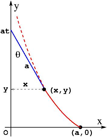 Figure to illustrate geometrical construction of tractrix. New version with dimensionless variable t.